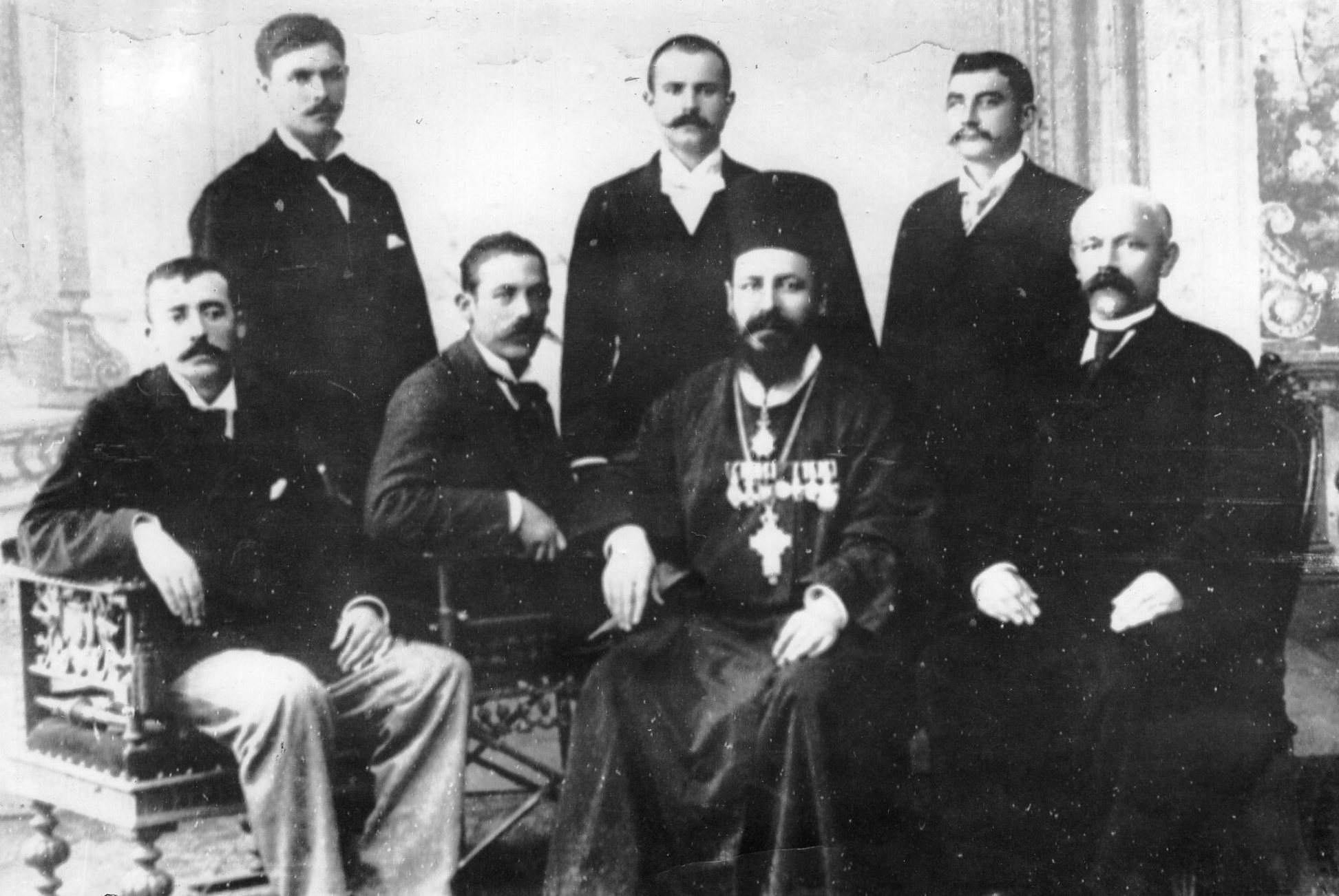 Delegates at the Skopje eparhy who participated in the Ecumenical Patriarchate. Constantinople, 1897 This media file is produced by Wikipedian in Residence in Category:Wikipedian in Residence at DARM in 2016.